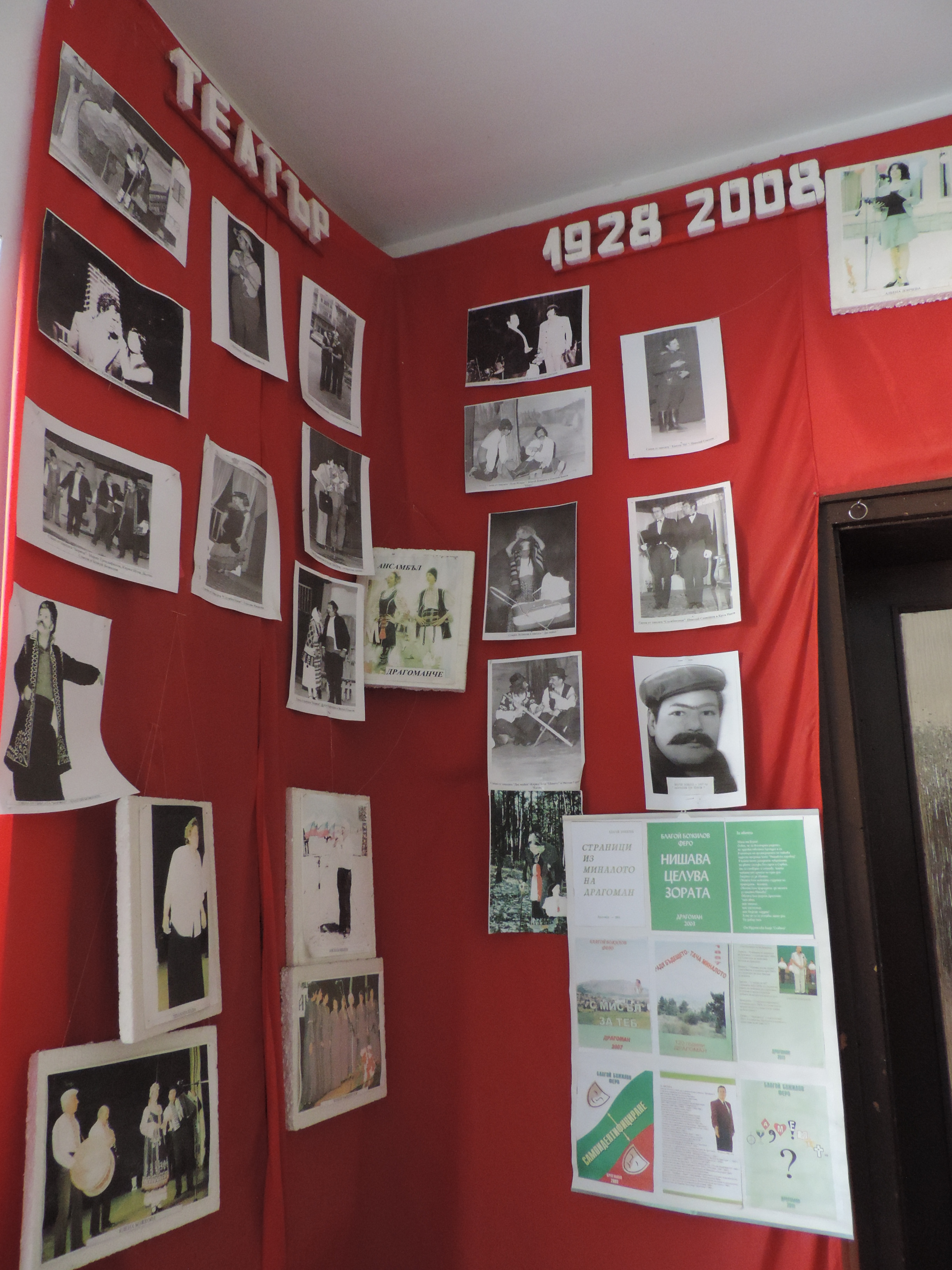 Exhibit of the "Dragoman 1925" Community Centre in Dragoman, Bulgaria